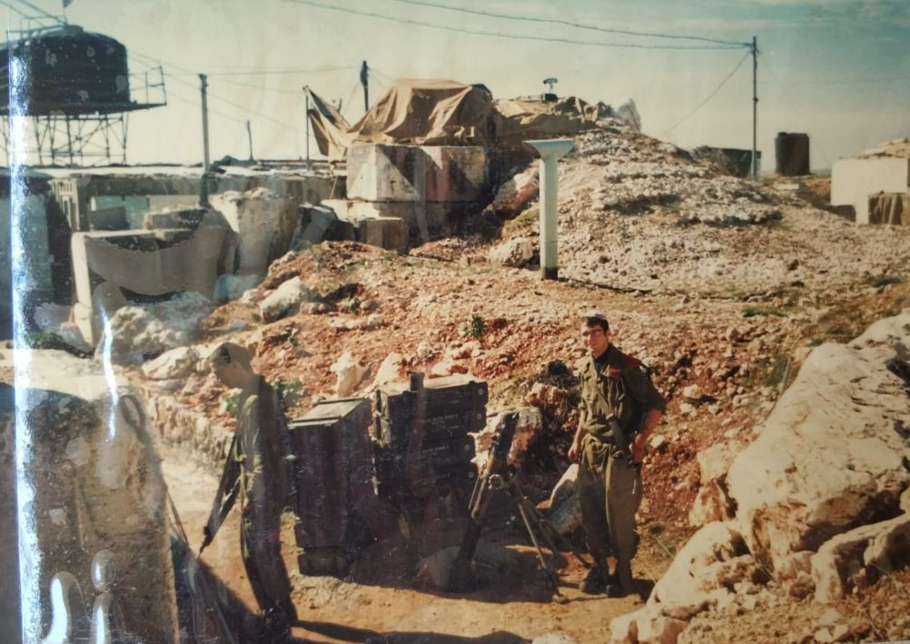 מוצב כאוכבא ברצועת הביטחון בלבנון